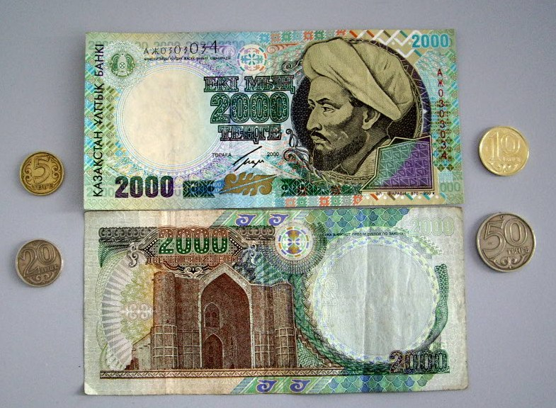 My own photo, depicting several denominations of this currency.